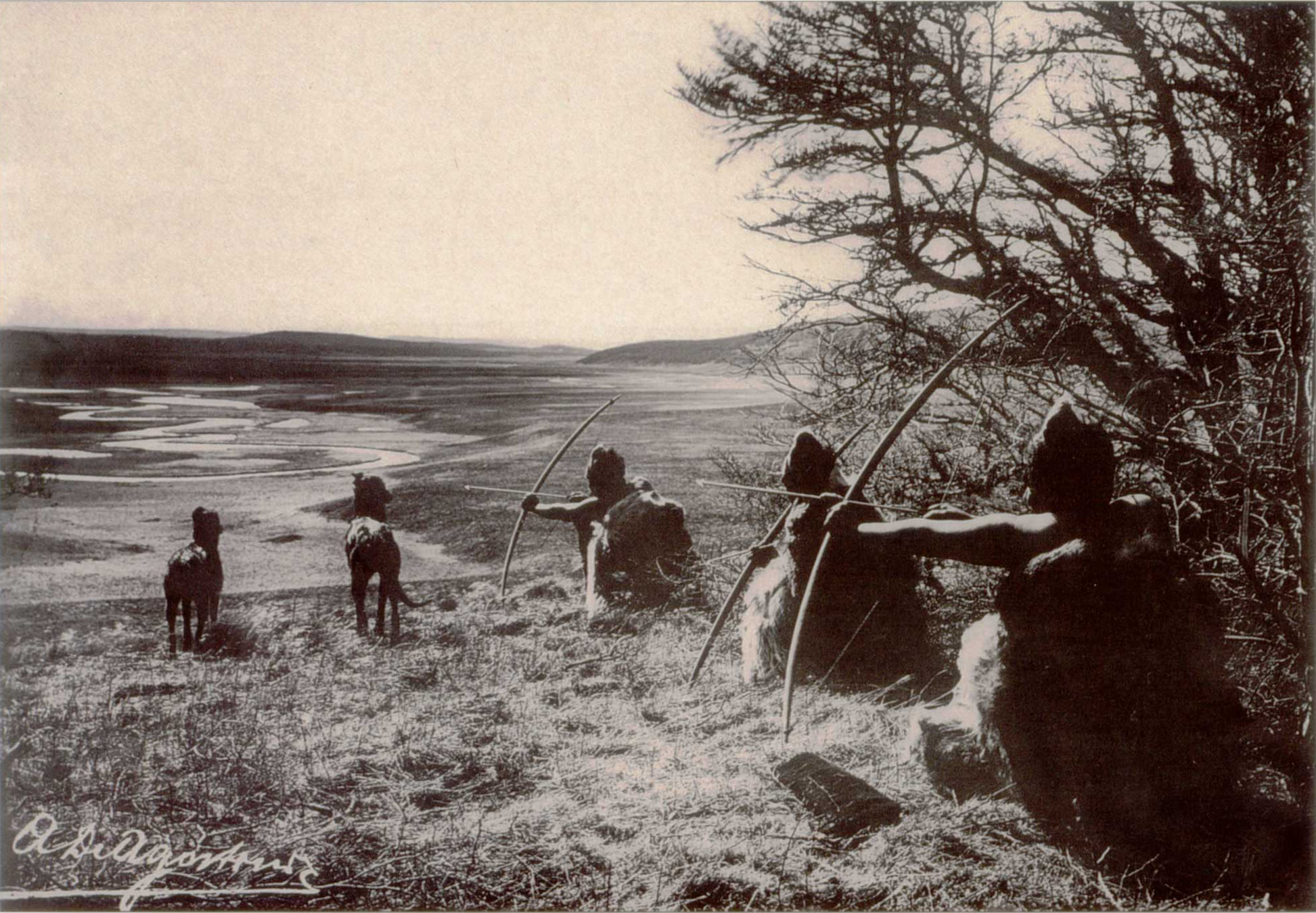 The Selk'nam, also known as the Ona, lived in the Tierra del Fuego islands, in southern Chile and Argentina. They were one of the last aboriginal groups in South America to be reached by Westerners, in the late 19th century, when the Chilean and Argentine governments began efforts to explore and integrate Tierra del Fuego (literally, the "land of fire" based on early European explorers observing Selk'nam smoke from their bonfires).